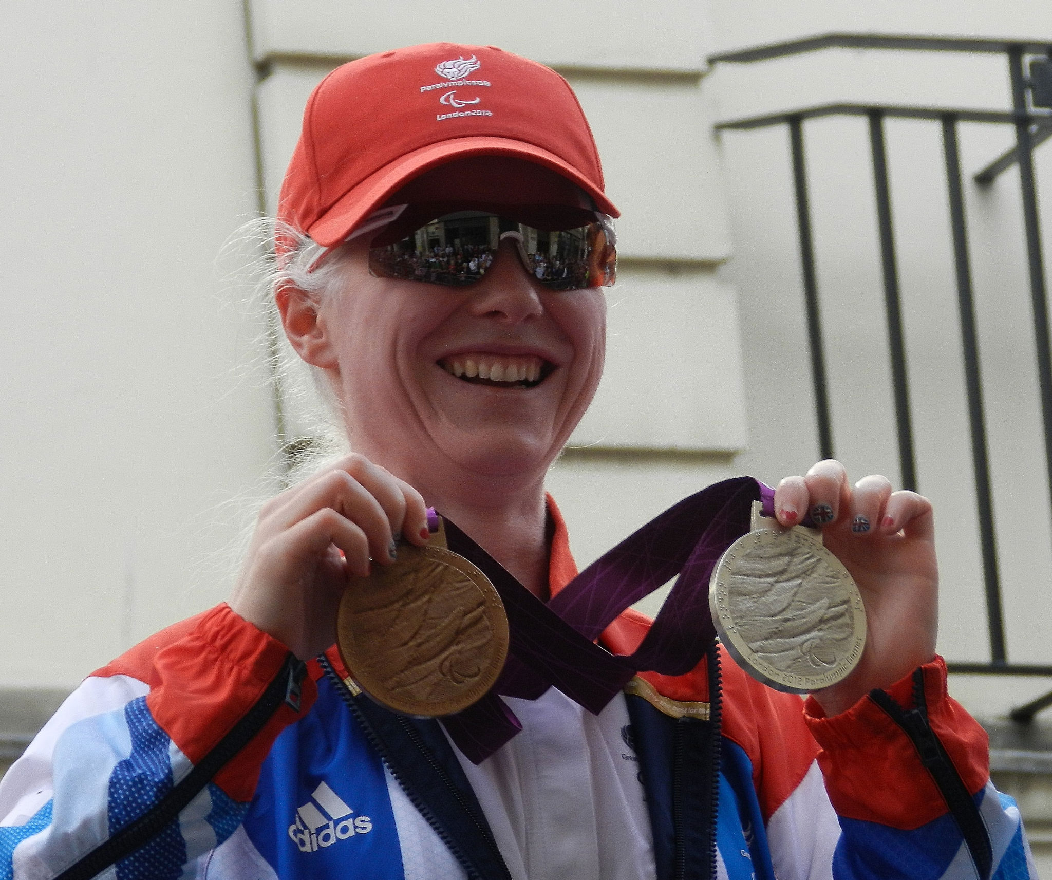 Paralympic cyclist Aileen McGlynn holding her silver and bronze medals won at the 2012 Summer Paralympic Games